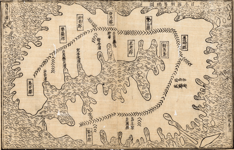 『海東諸国紀』（해동제국기）「日本国対馬嶋図 "Map of Tsushima island,Japan"」;The work of Sin Suk-ju,Korean staesman in 15th century